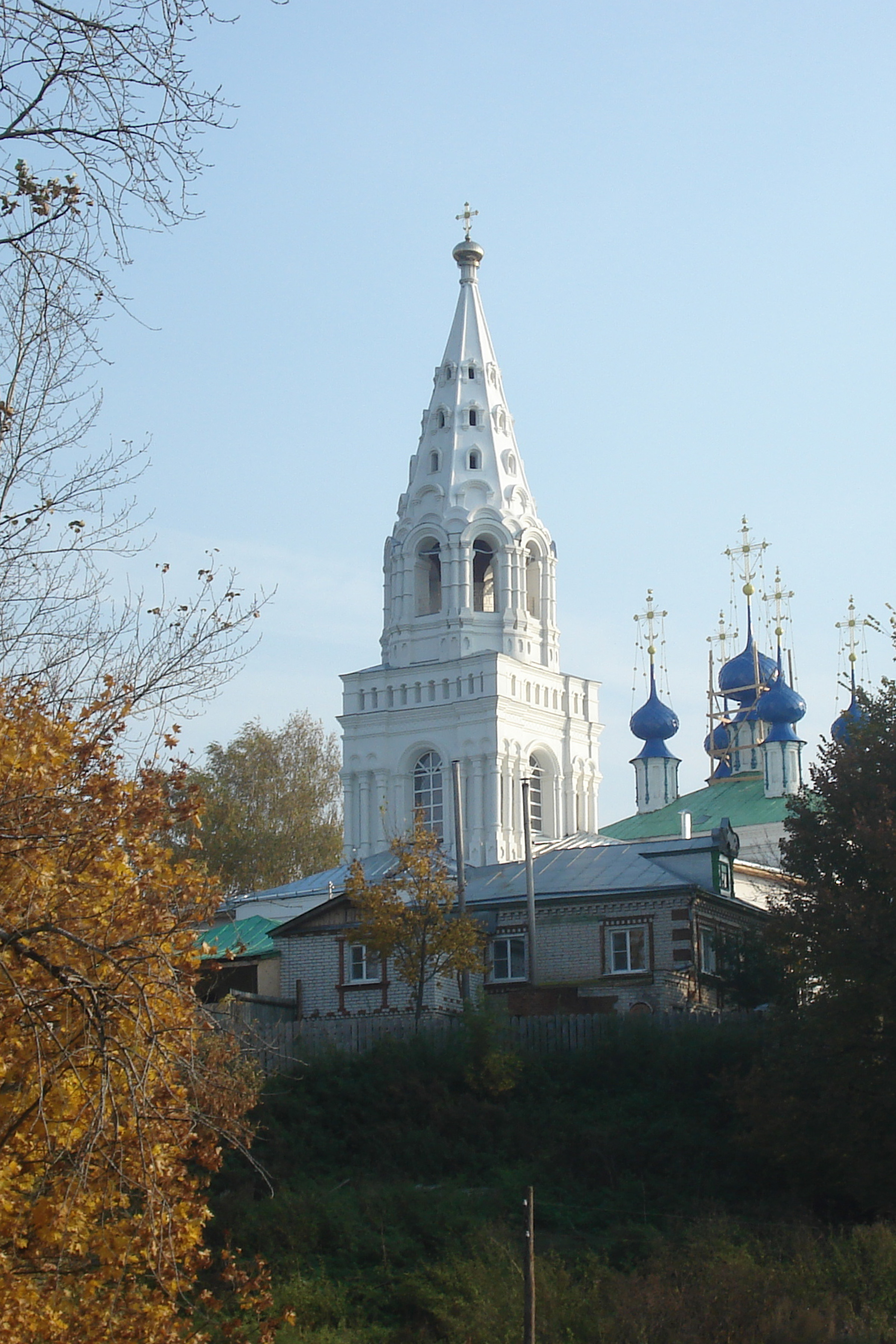 Trinity_Church in the village of Arefino. Nizhegorodskaya oblast. Russia.